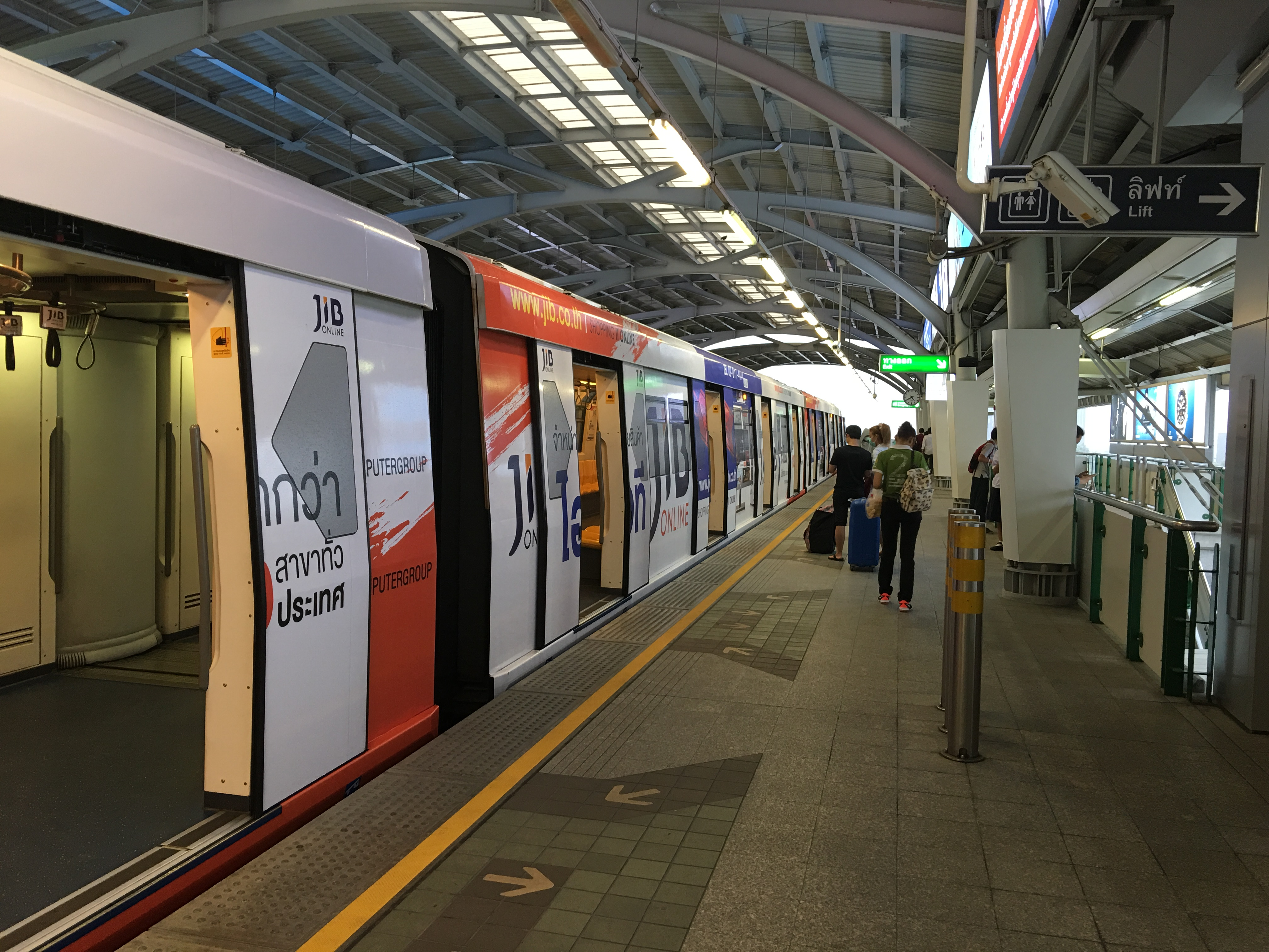 The Platform 1 of Bearing Station